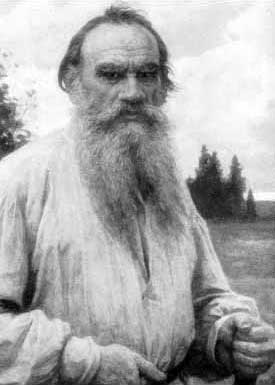 Leo Tolstoy